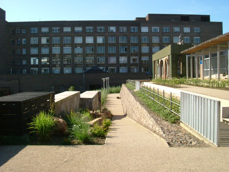 Rottenrow Gardens a sanctuary in the middle of the city